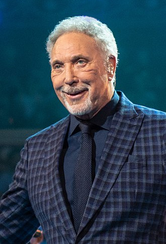 Sir Tom Jones at The Queen's Birthday Party